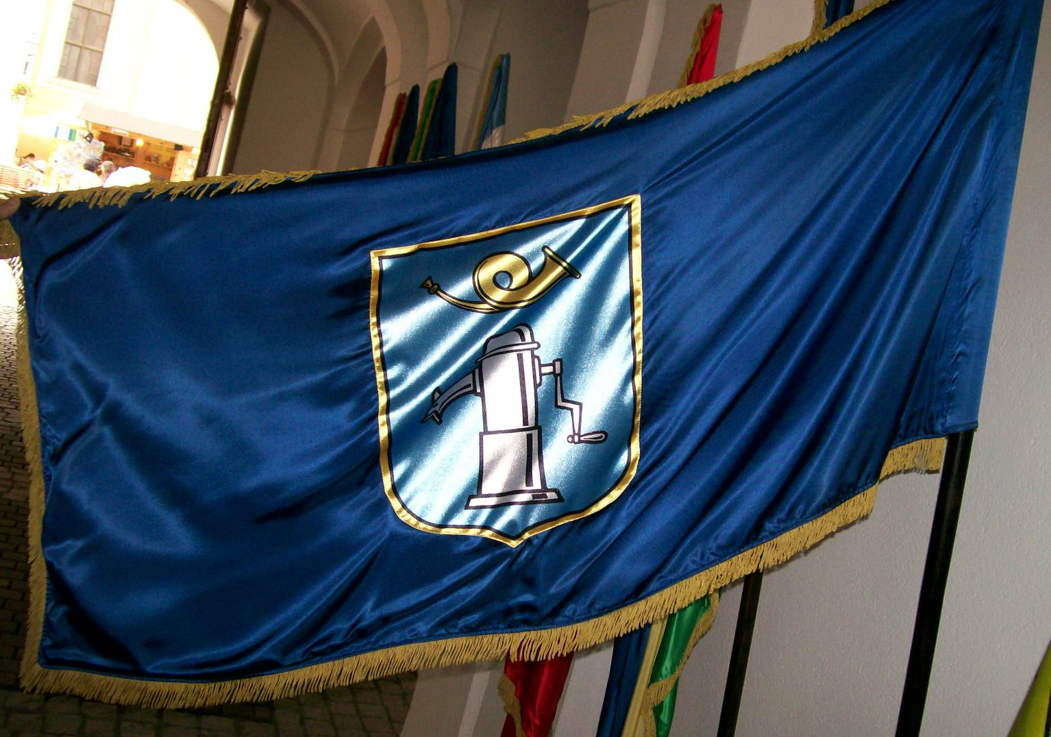 Flag of Municipality of Breznički Hum, Varaždin County, Croatia ( reverse side of the flag)